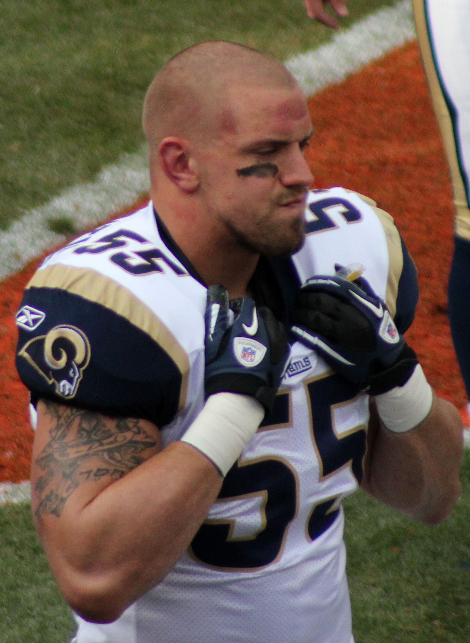 James Laurinaitis, a player on the Saint Louis Rams American football team.